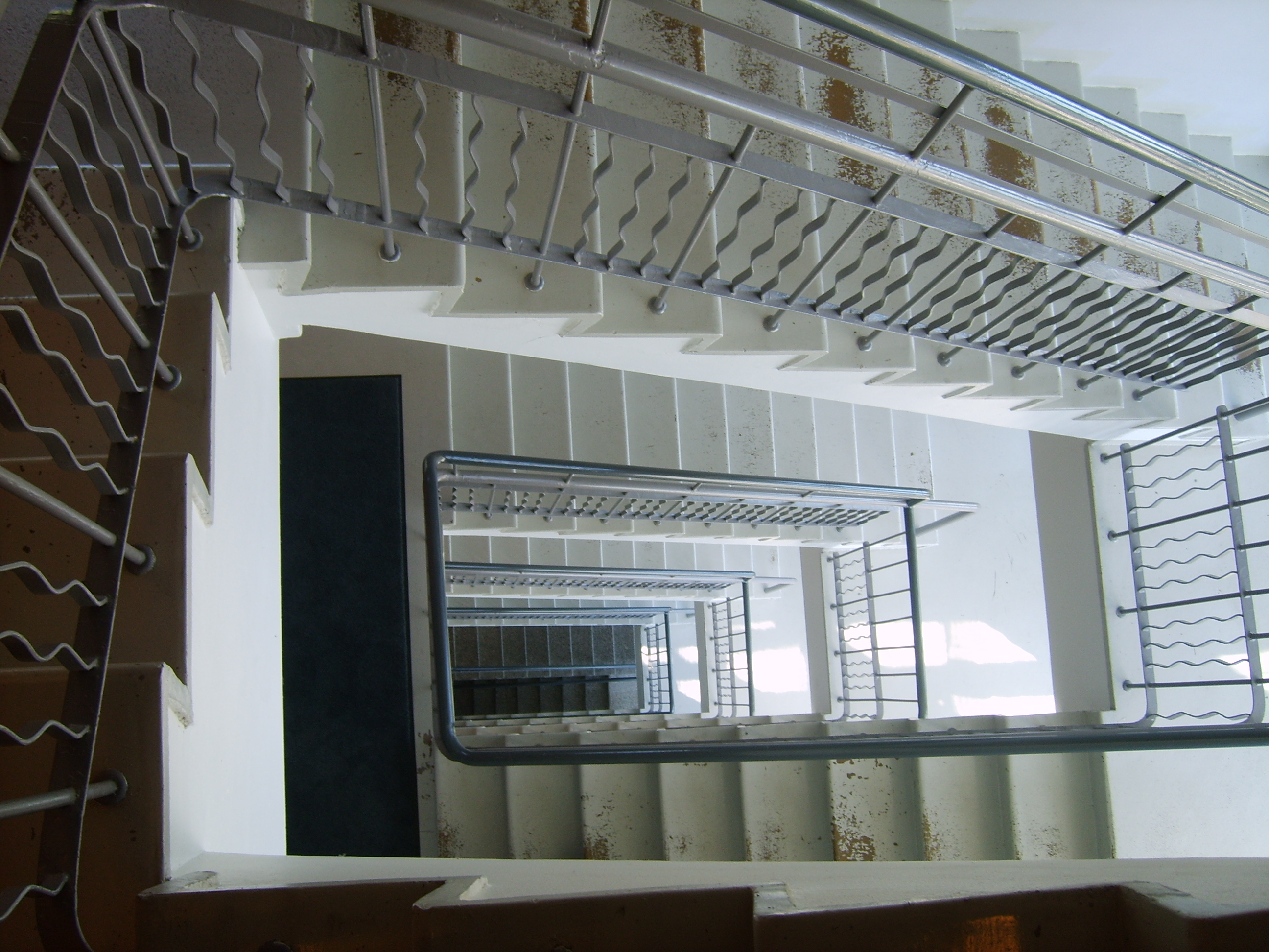 stairs leading to the top of the panoramic tower of Jyväskylä, Finland